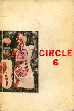 Cover of 6th issue of Circle Magazine, 1945